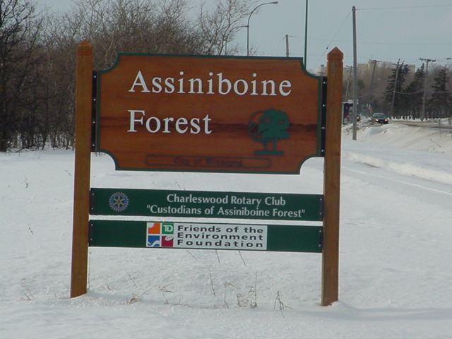 Assiniboine Forest, Winnipeg, Manitoba